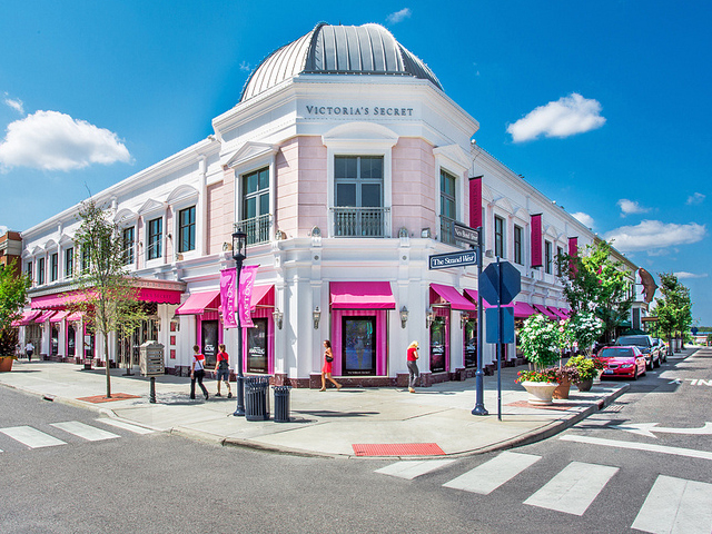 brand new Victoria's Secret opened Summer 2012